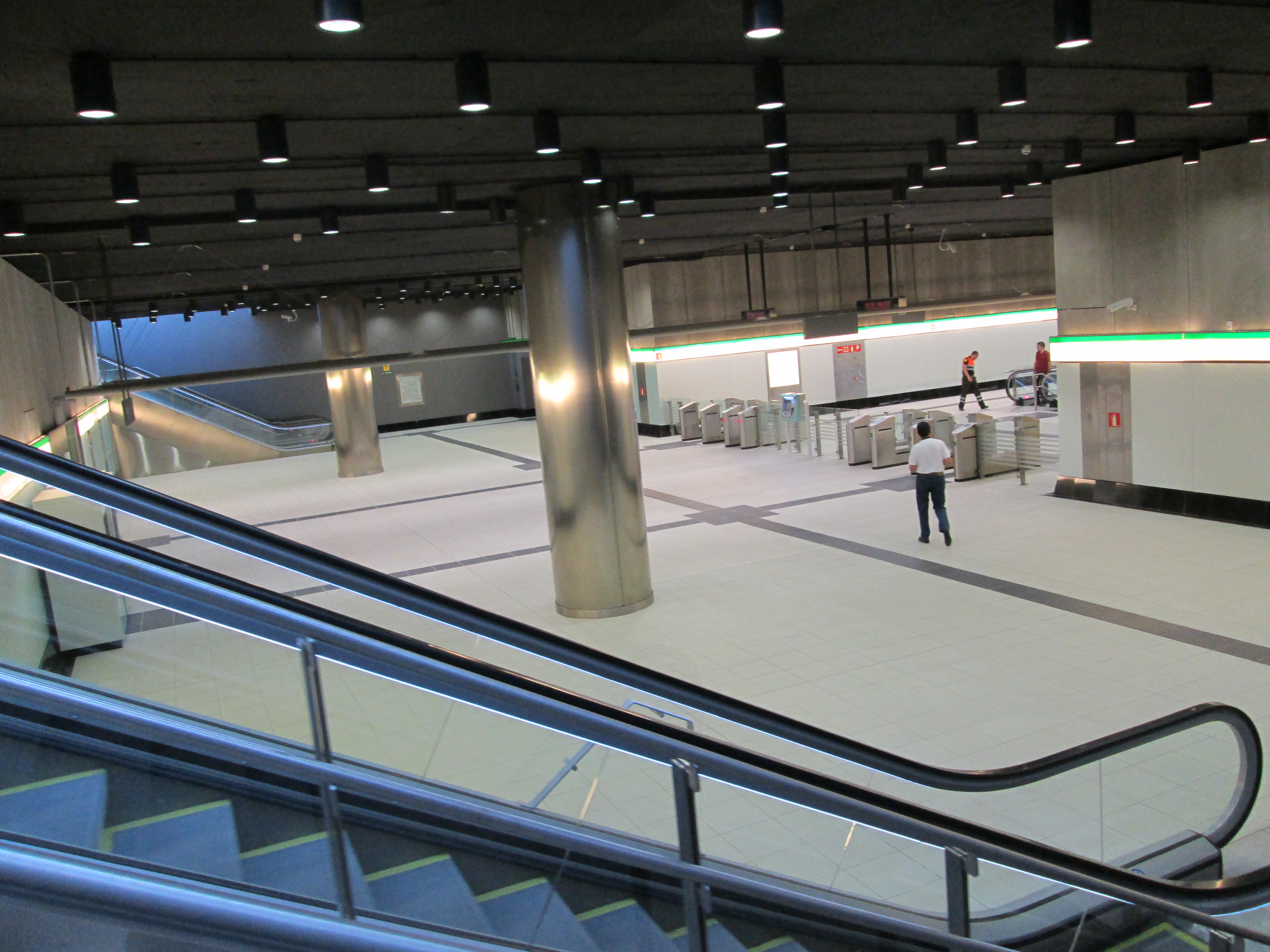 Estación de Ciudad de la Justicia